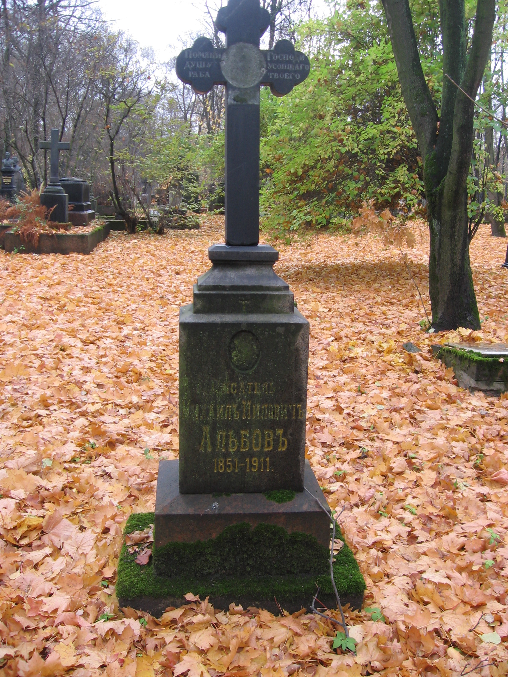 Grave of M. N. Albov